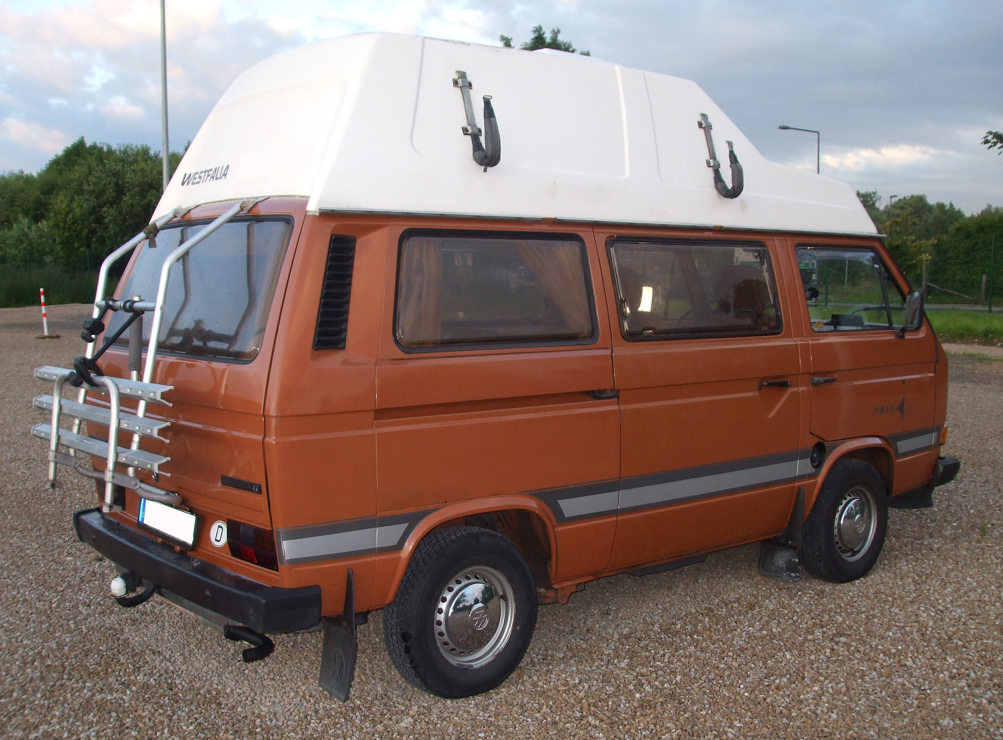 Westfalia camping vehicle «Joker»